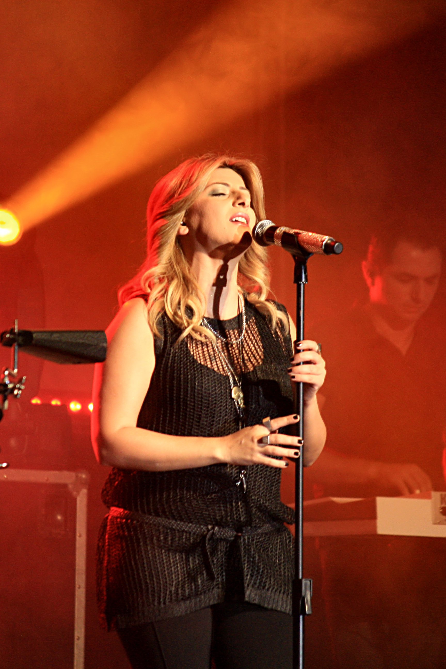 Sarit Hadad.